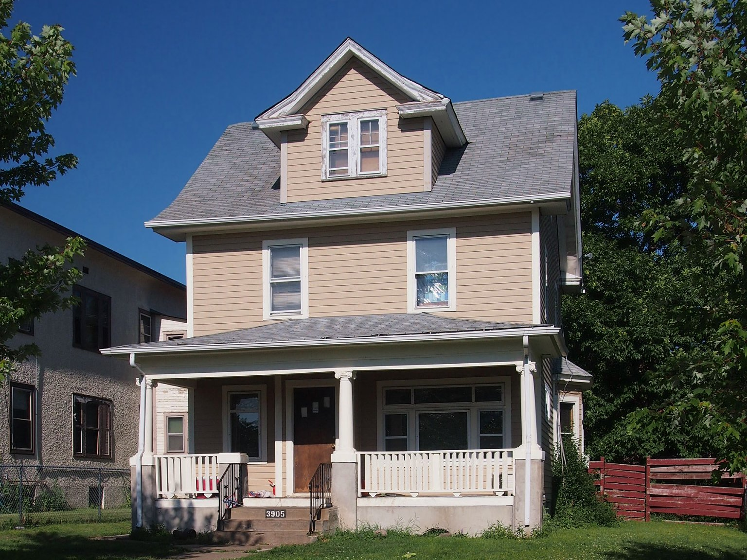 Lena O. Smith House, 3905 5th Ave S, Minneapolis, Minnesota, USA. Viewed from the west-southwest.